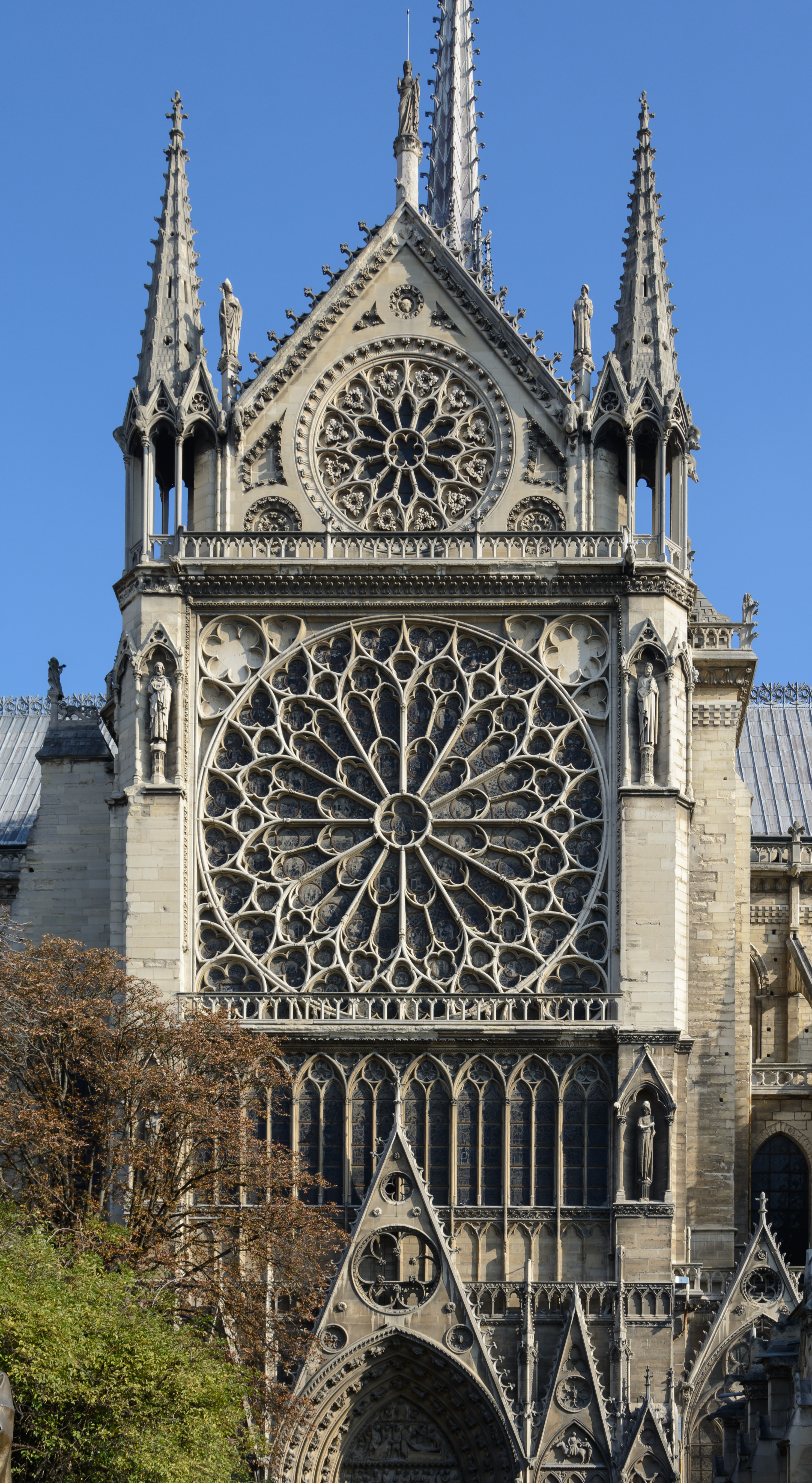 Façade and rose window of the south transept of cathedral Notre-Dame de Paris, France .